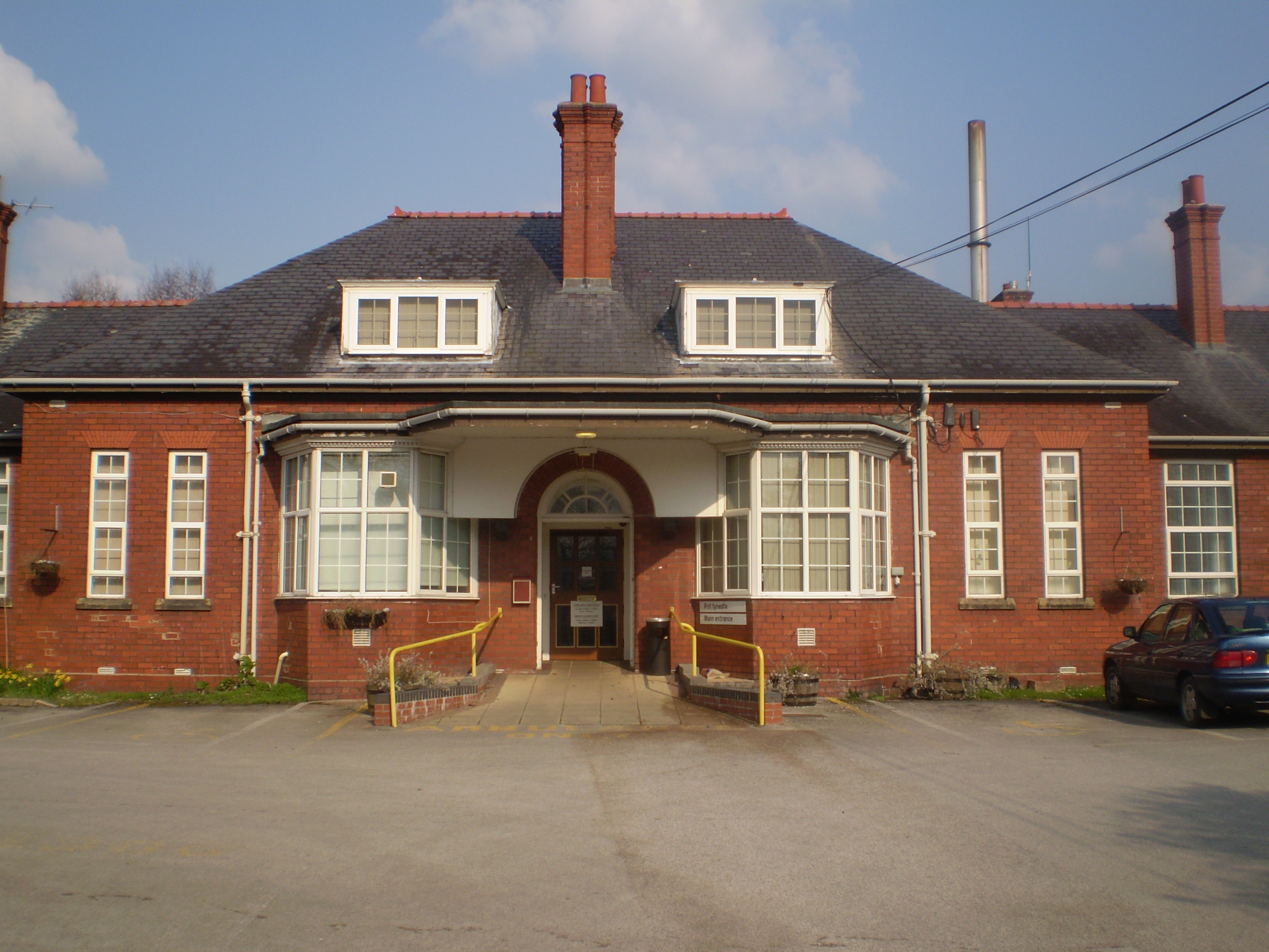 Main entrance to Ruthin Community Hospital, Ruthin, north Wales.